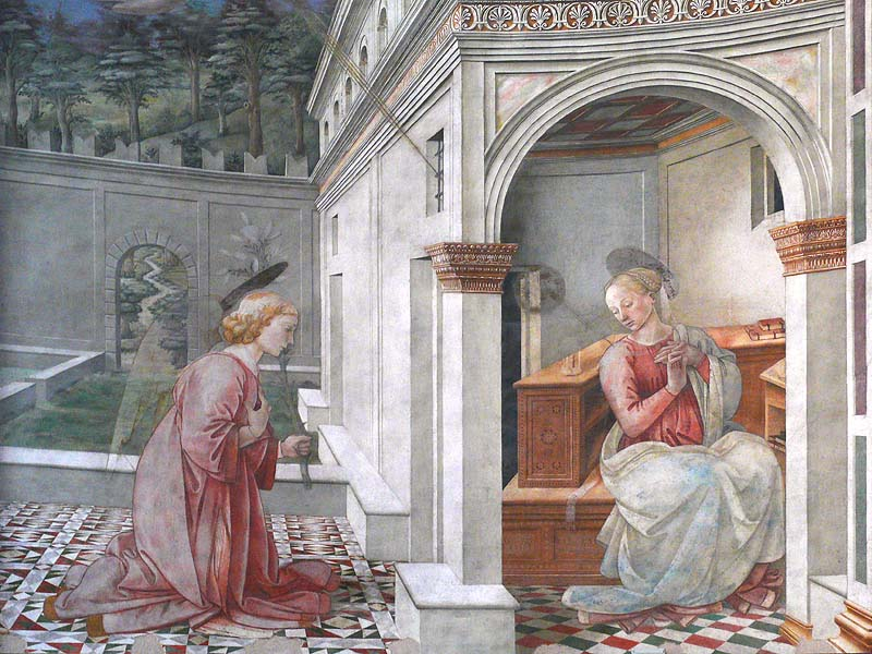 Duomo di Spoleto - Fra Filippo Lippi Fresco: Scenes of the Life of the Virgin - Annunciazione